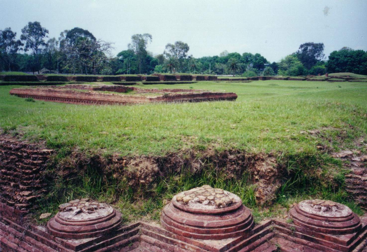 Ruins of secondary temple inside the Bihar Compound. The Bihar is actually square or rectangle-shaped, with rooms housing monks on all sides. There is a central mound where the deity/deities would be held (not in the picture). And there are several secondary structures inside the compound. Another monastery at Jaipurhat, the Paharpur Vihar bears a striking resemblance to this one, as well as many others scattered all around Bangladesh and Eastern India.